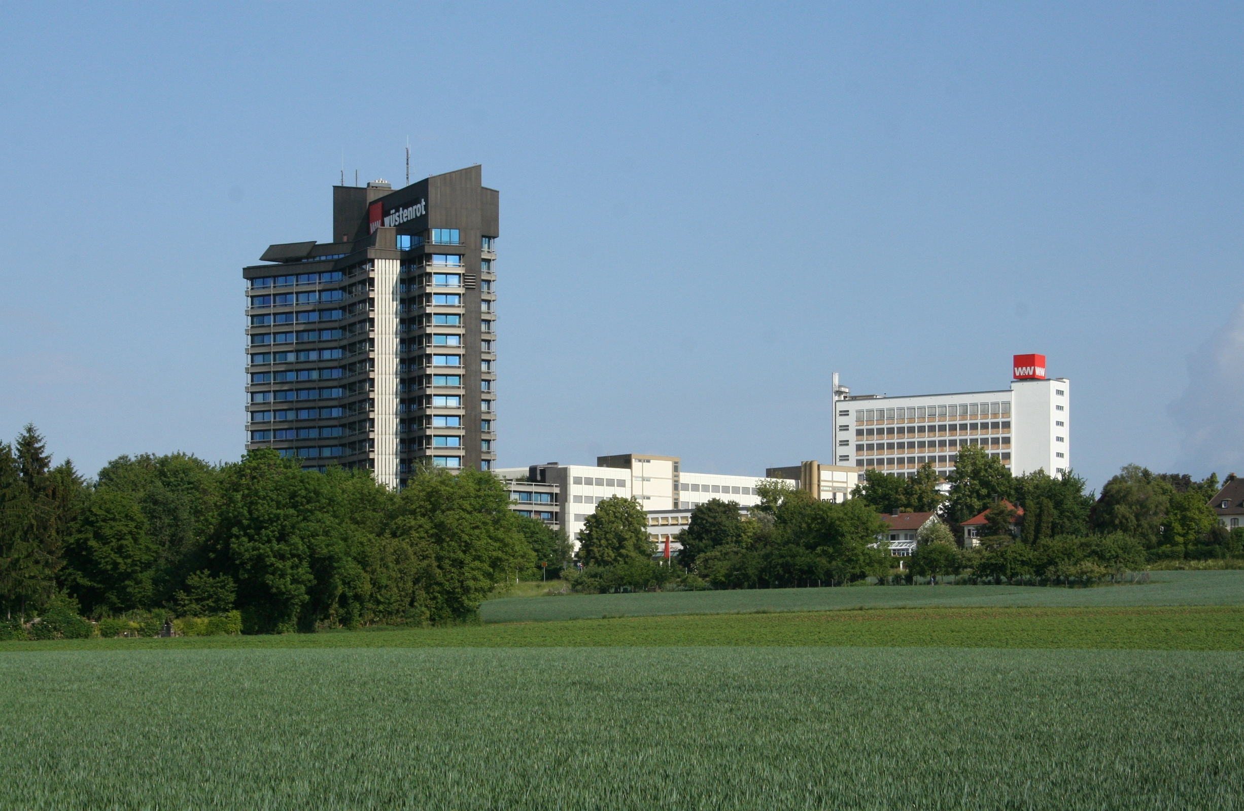 Building of the Wüstenrot holding company in Ludwigsburg, administrative district Ludwigsburg, Baden-Wurttemberg, Germany.